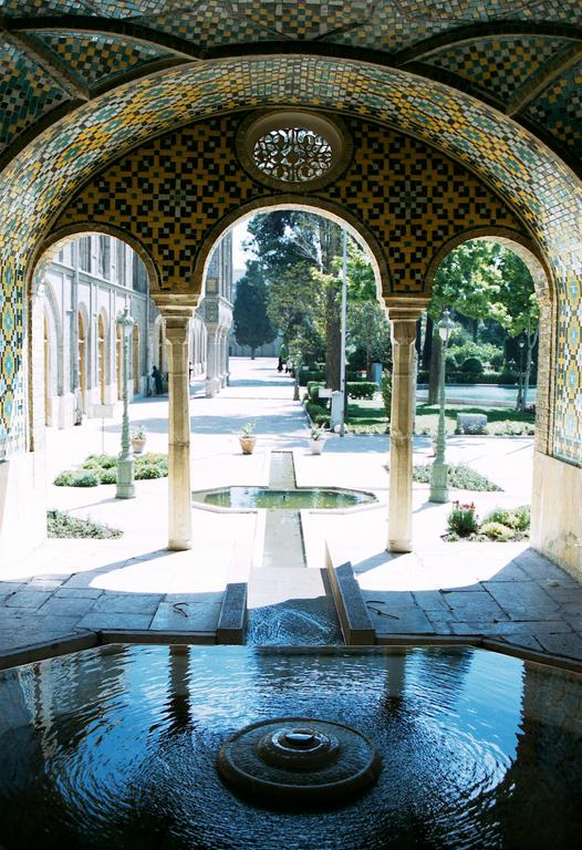 Fountain inside the iwan of Negar Khane, Golestan palace, Tehran, Iran.